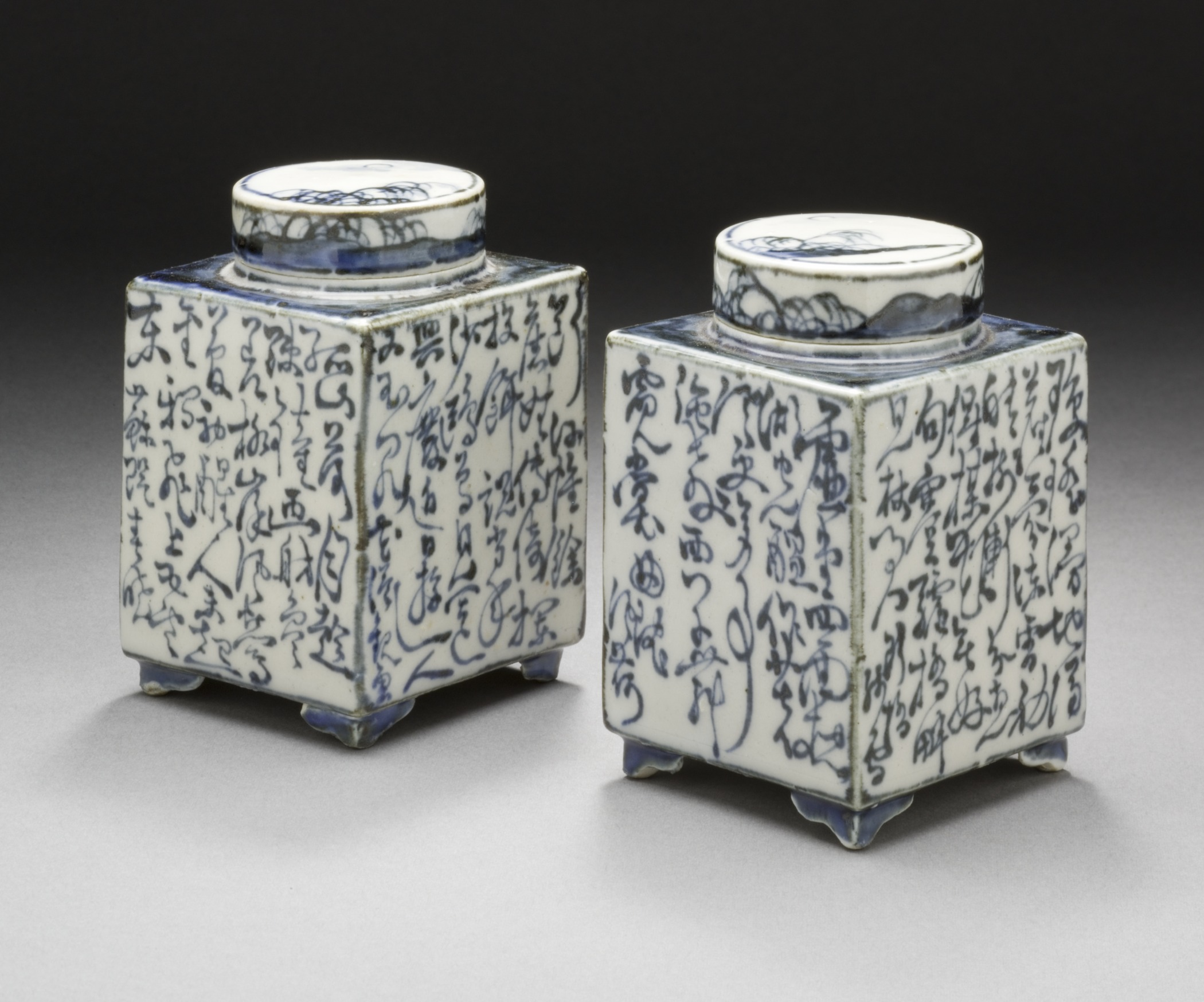 first quarter of the 19th century Furnishings; Serviceware Kyoto ware; porcelain with underglaze blue Gift of Leslie Prince Salzman (M.2007.75.1-.2) Japanese Art